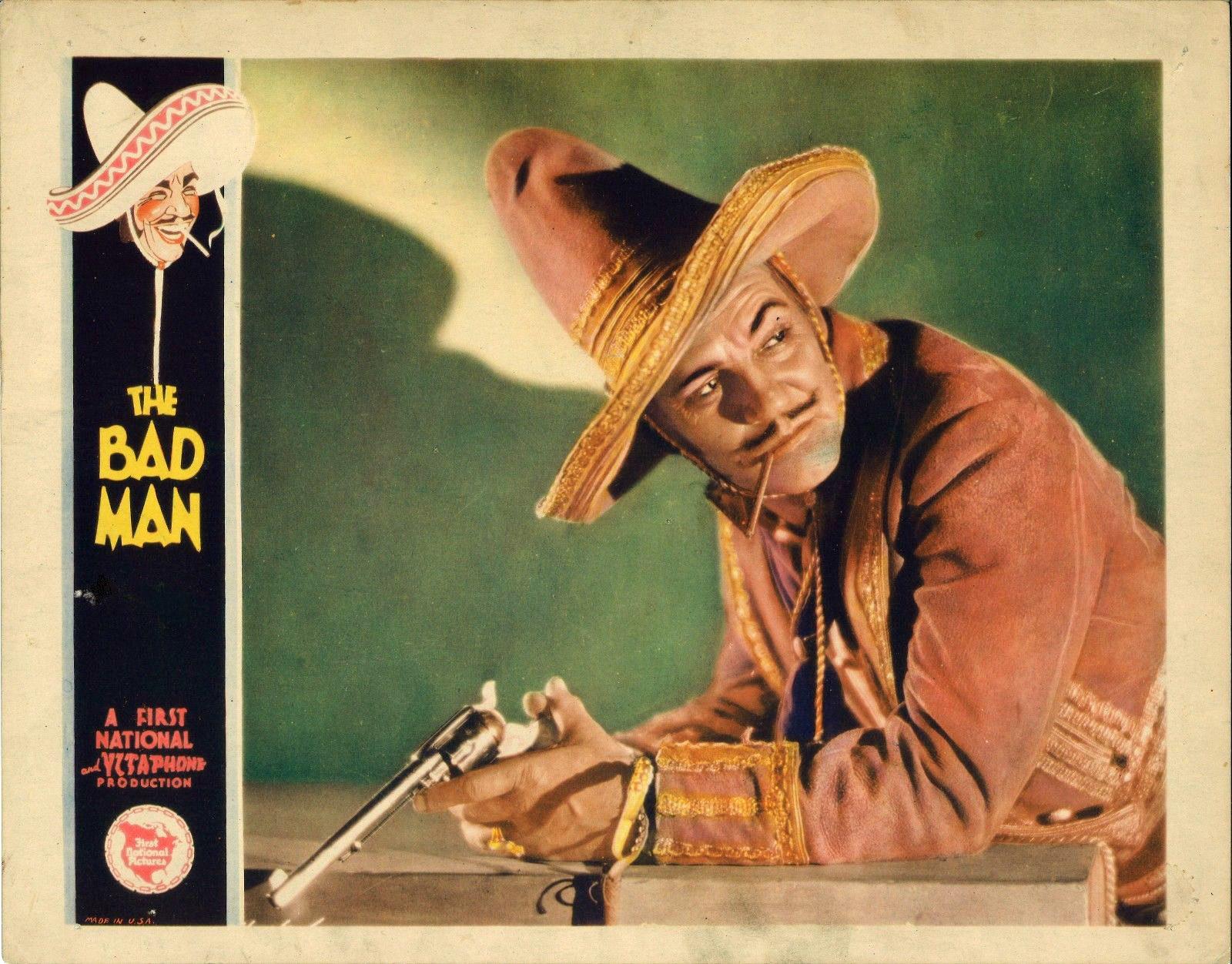 Lobby card for the 1930 film The Bad Man.